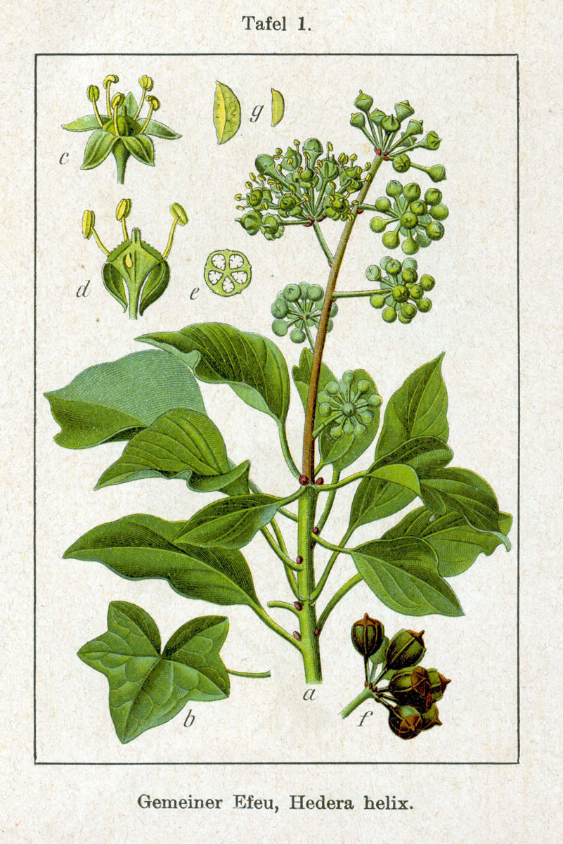 Hedera helix L. Original Description Gemeiner Efeu, Hedera helix